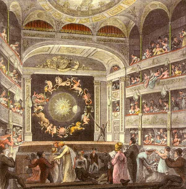 Performance of an Eiduranion at London 1817 (at the „English Opera House“ („Lyceum“) in the Strand